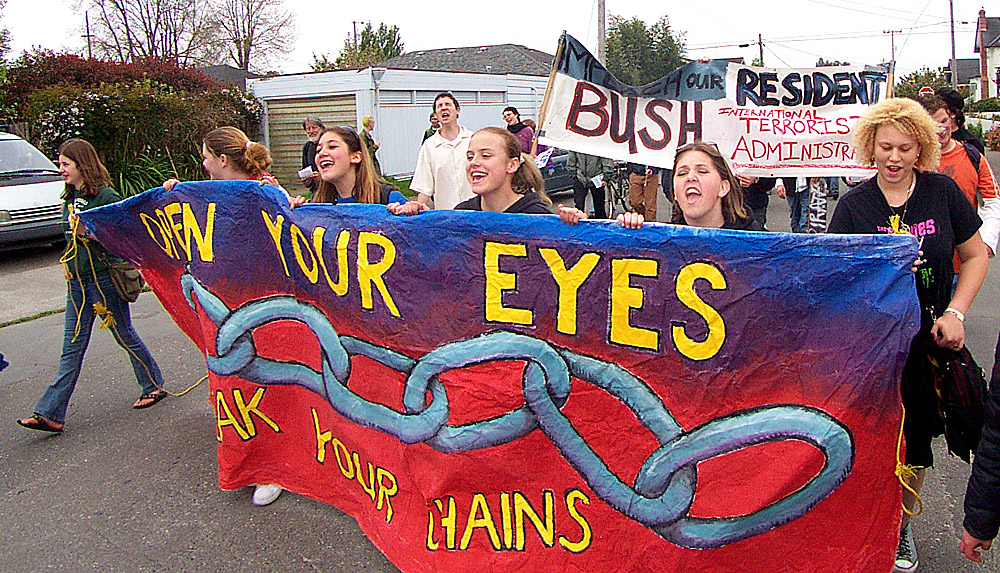 Protesting the George W. Bush adminstration, Arcata California.